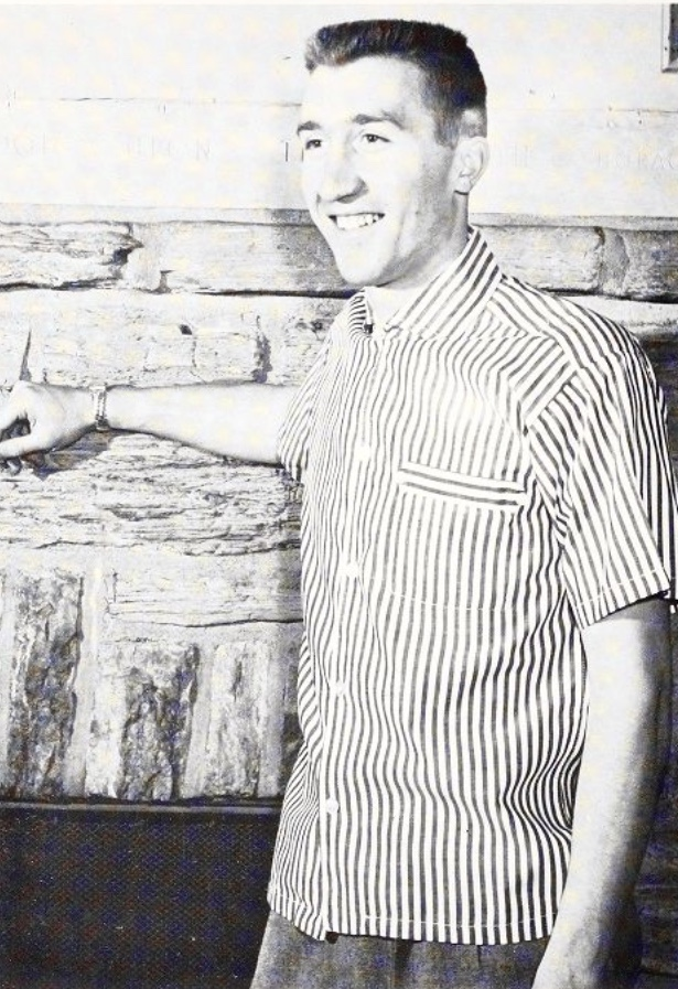 American college basketball player Joe Capua of the University of Wyoming from the 1956 Wyo student yearbook